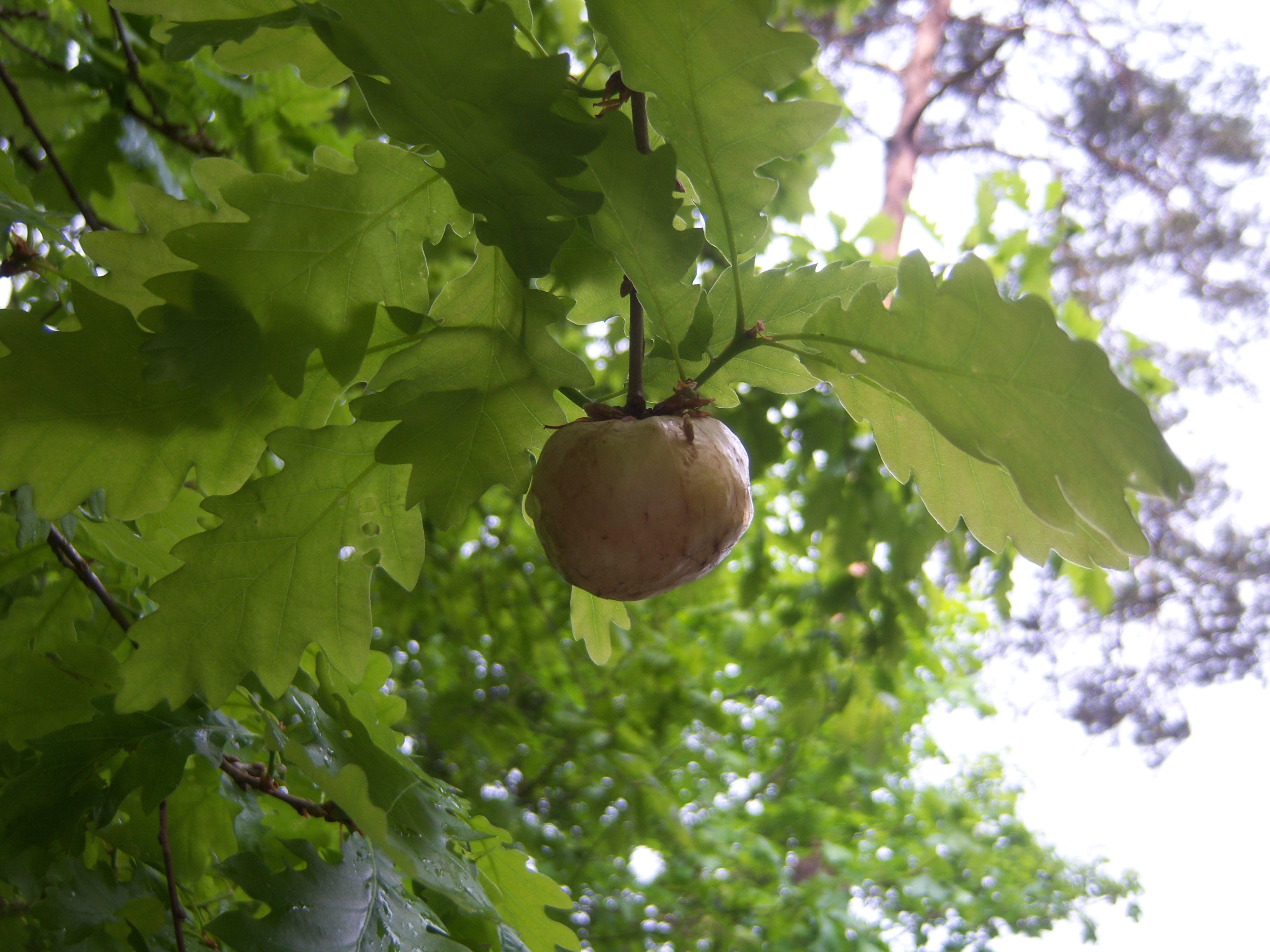 Gall (Oak Apple) on oak by Biorhiza pallida